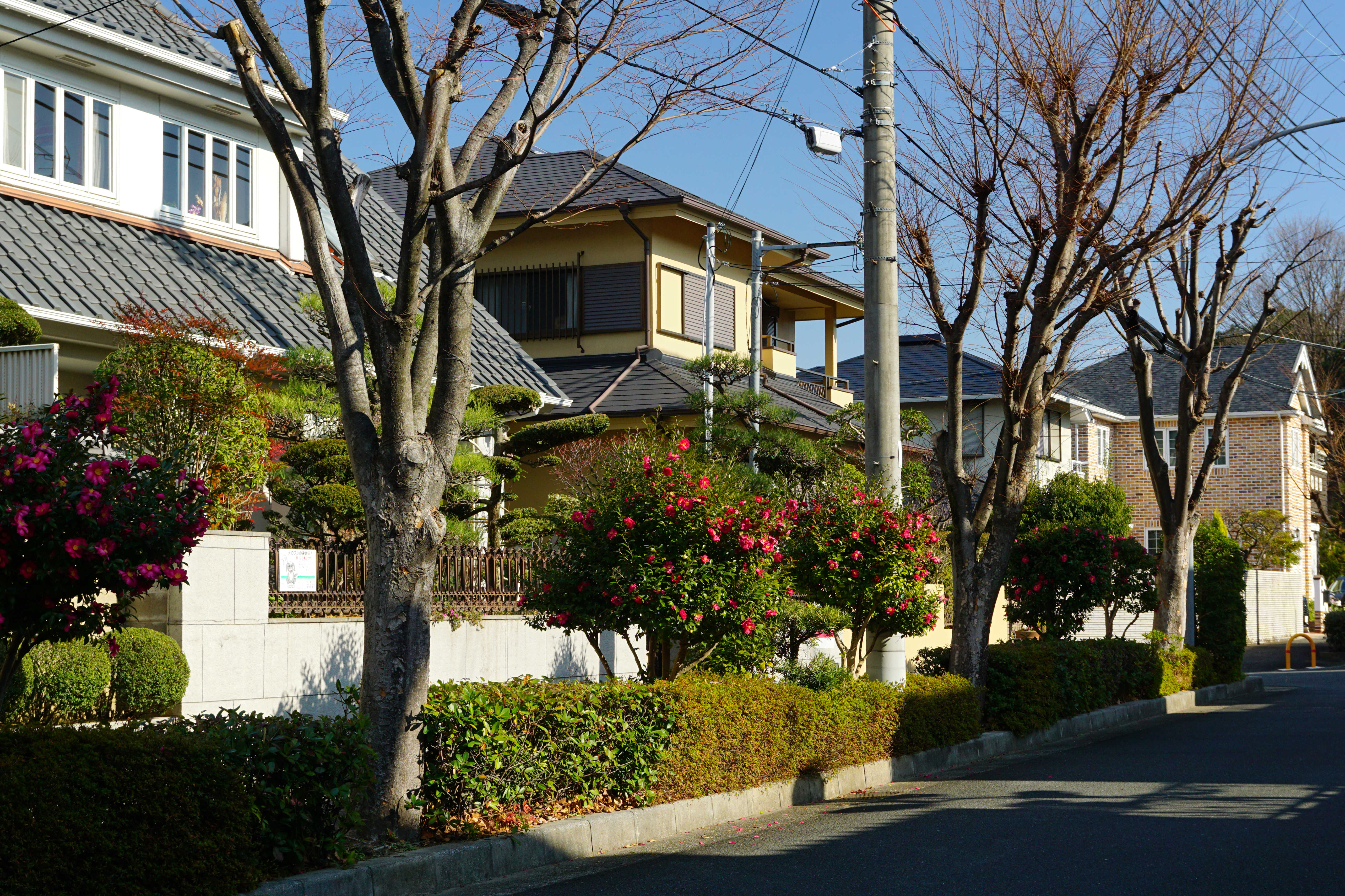 At Nanpeidai 5-chome, Takatsuki, Osaka prefecture, Japan.